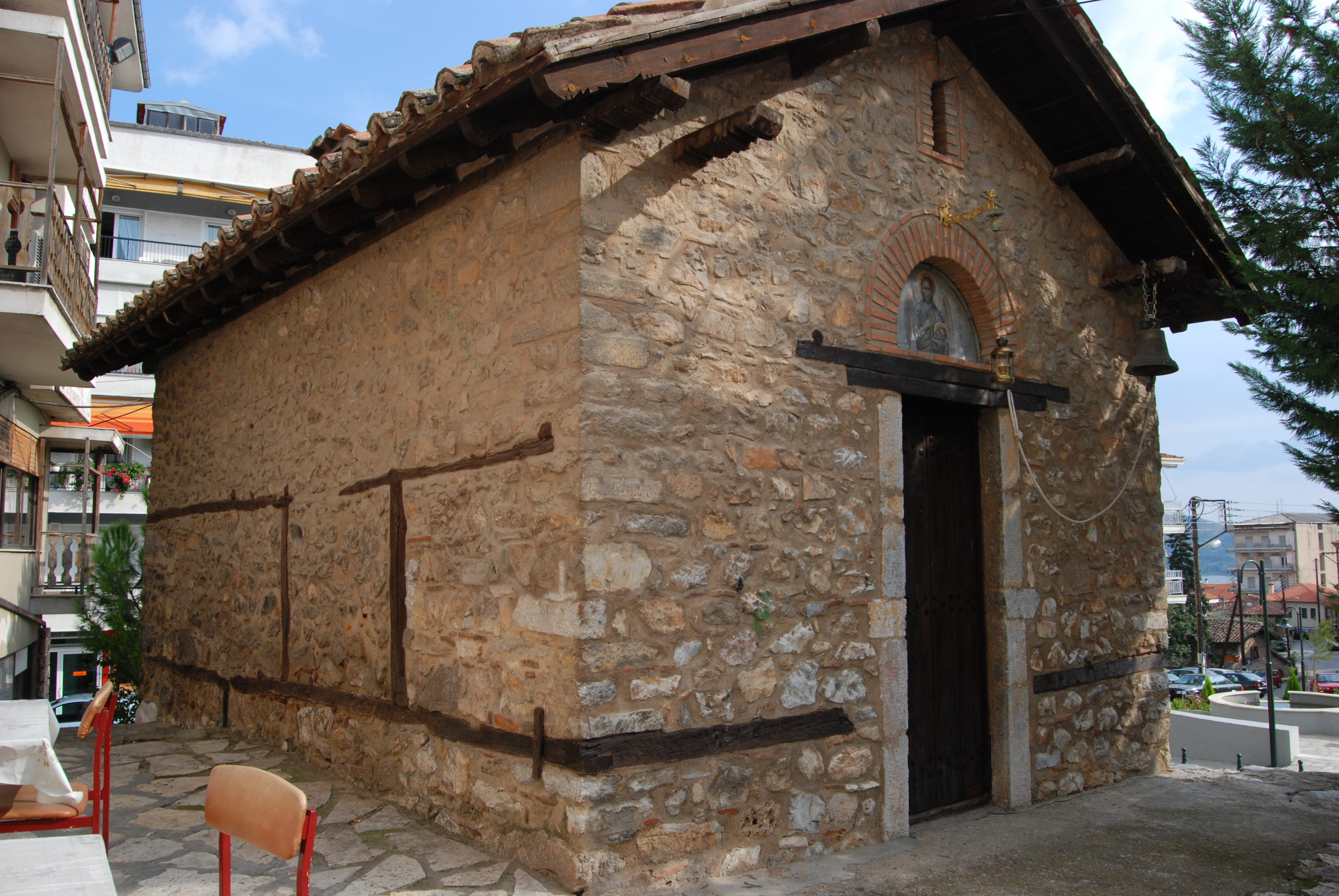 Church of Agios Ioannis Prodromos, Kastoria, Greece.